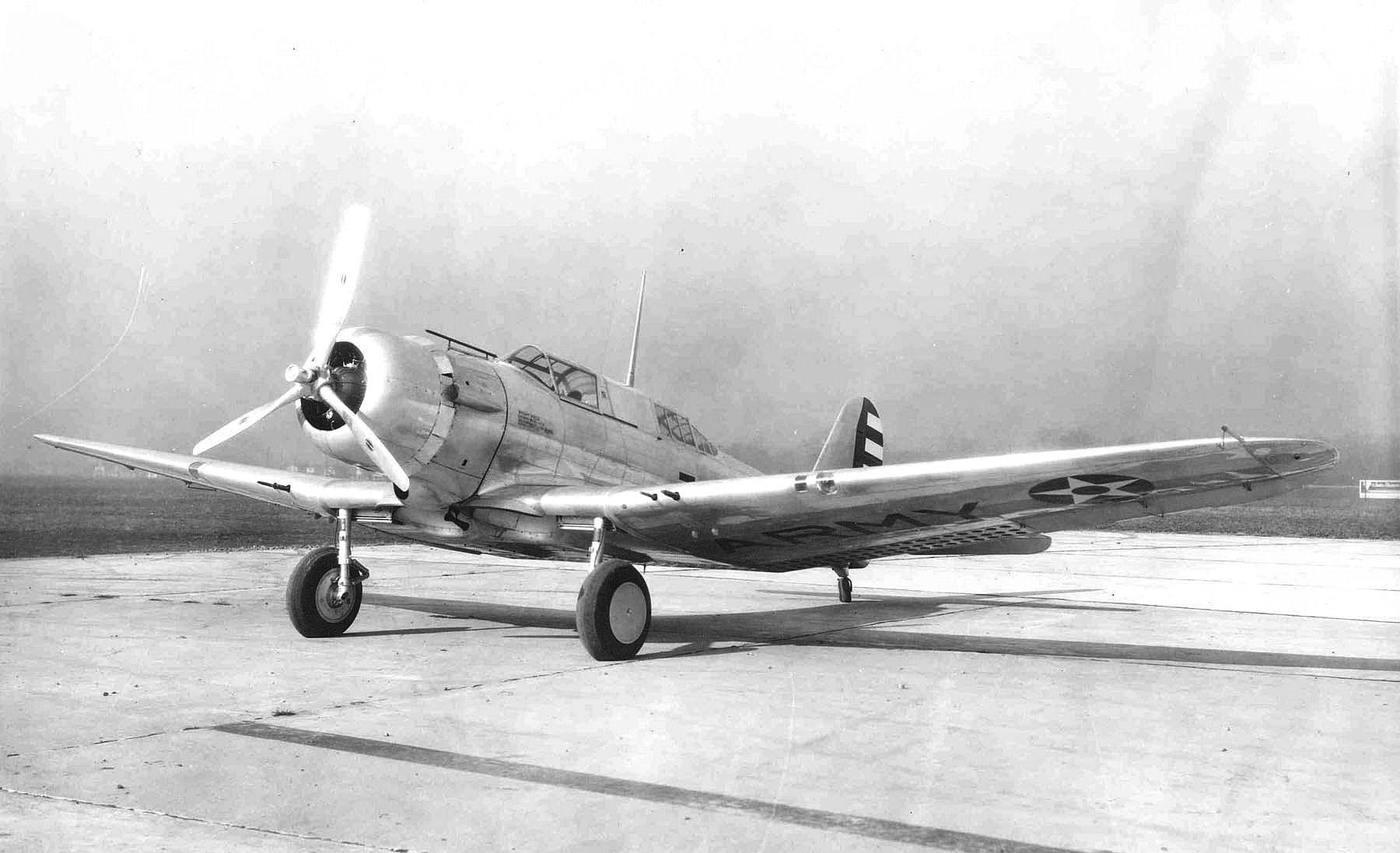 Northrup A-17A 36-162 USAF Museum